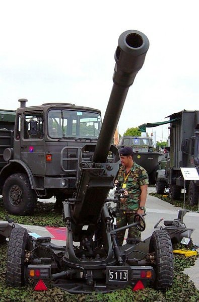 Photo taken at Singapore Army Open House 2007. The 105mm Giat LG-1 howitzer